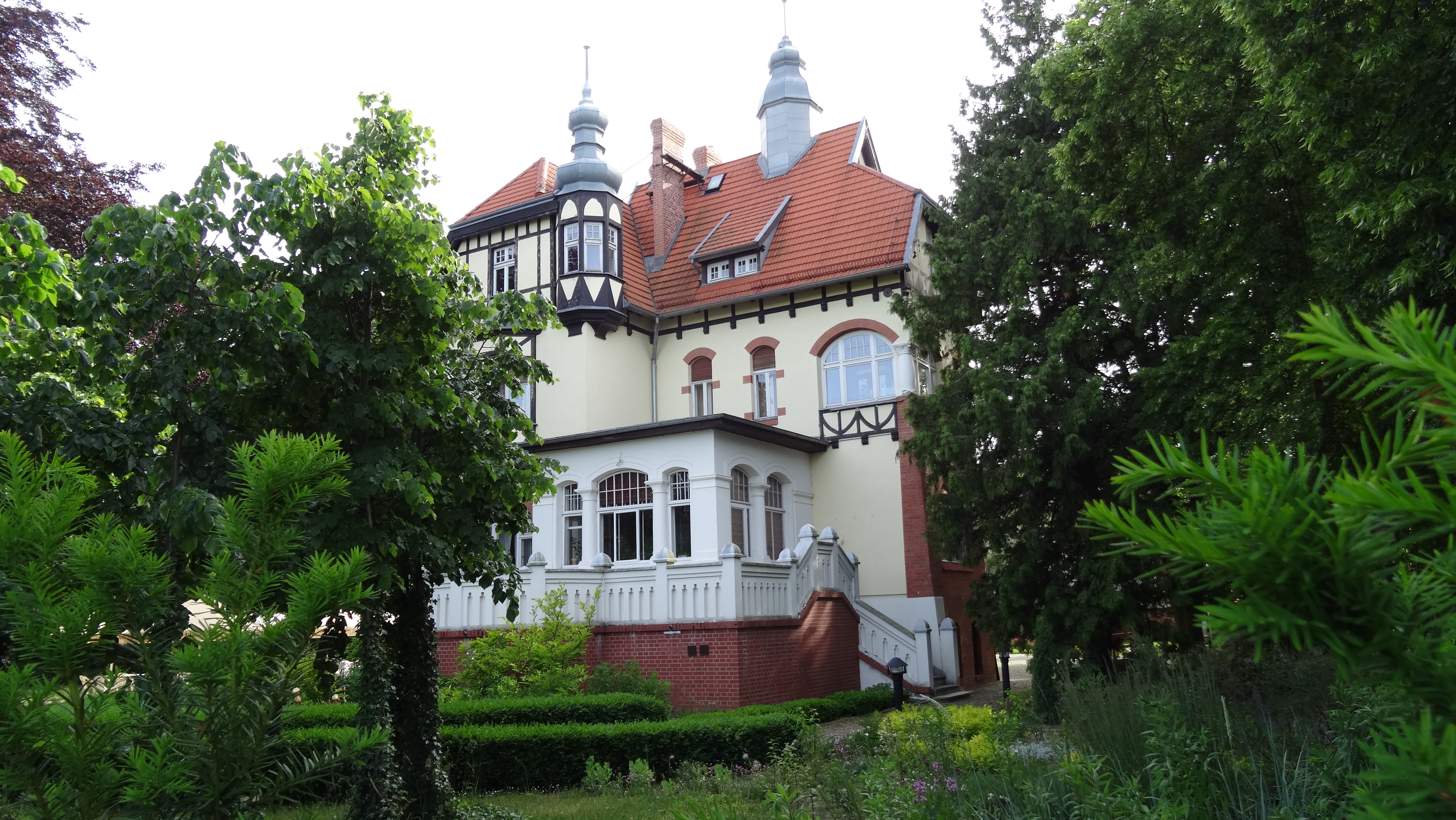 Musem of Sopot, Poland, 8 Poniatowskiego Str.